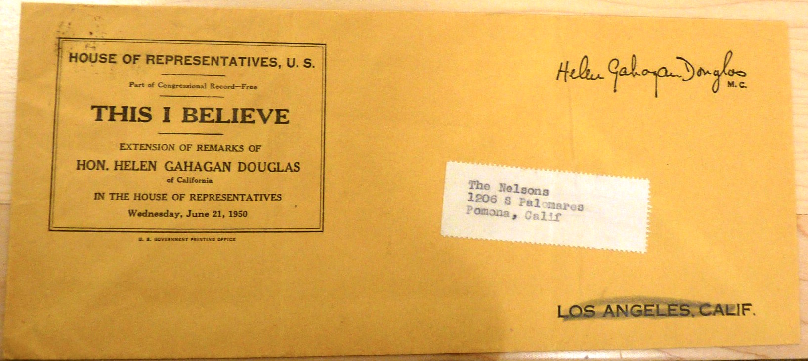 Envelope in Nixon Presidential Library in which Helen Gahagan Douglas sent a copy of a speech to a Nixon constituent (which is why the Los Angeles address is crossed out)